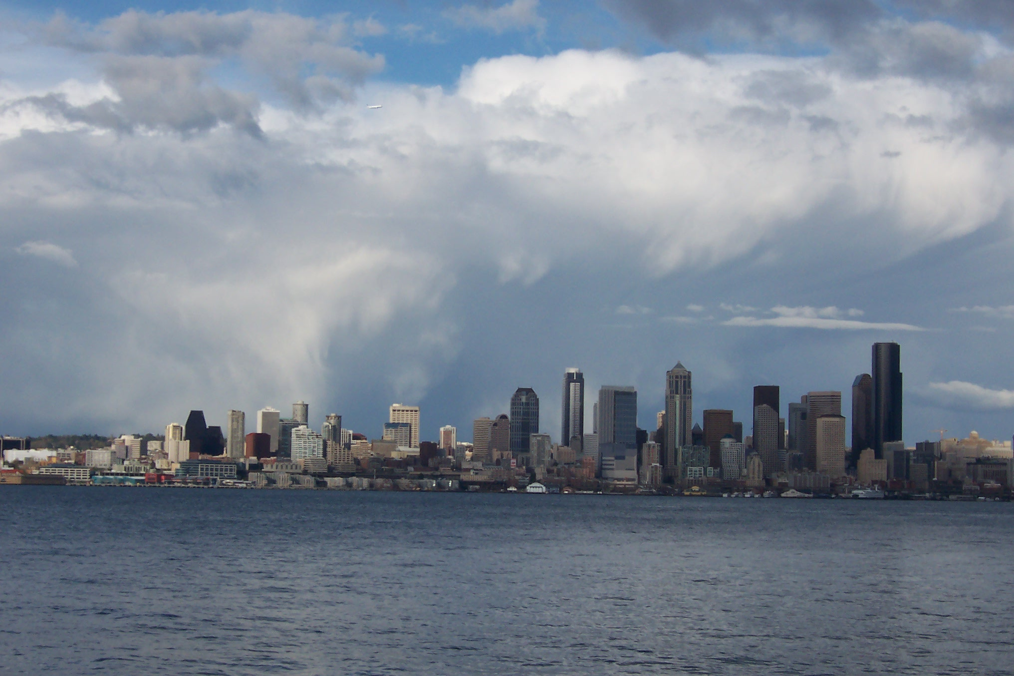 Downtown Seattle from West Seattle on a sunny afternoon (view across Elliott bay, taken from the waterfront avenue at the Northern end of the peninsula at Duwamish Head)